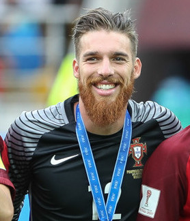 Portugal - Mexico, 2 Jul 2017